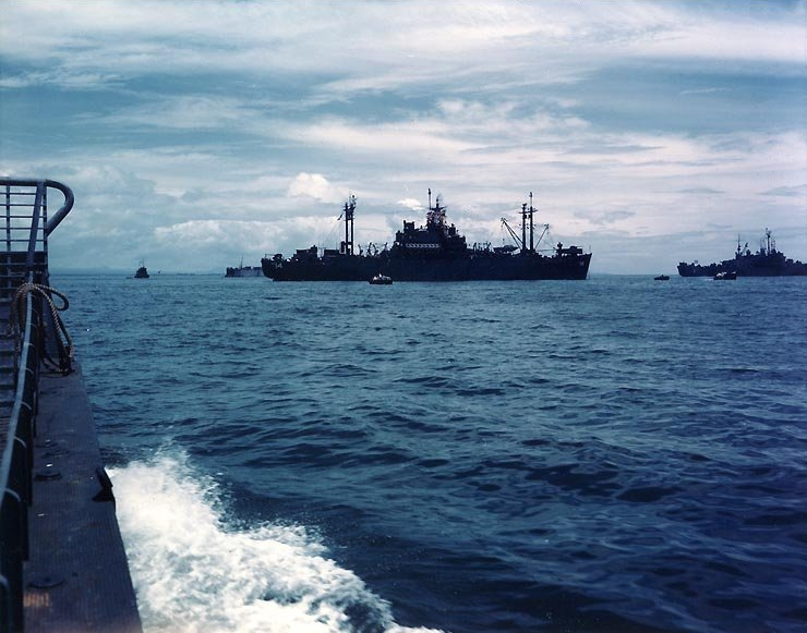 The U.S. Navy amphibious force command ship USS Teton (AGC-14) in Subic Bay, Philippines, on 27 July 1945. USS Catskill (LSV-1) is partially visible in the far right background.